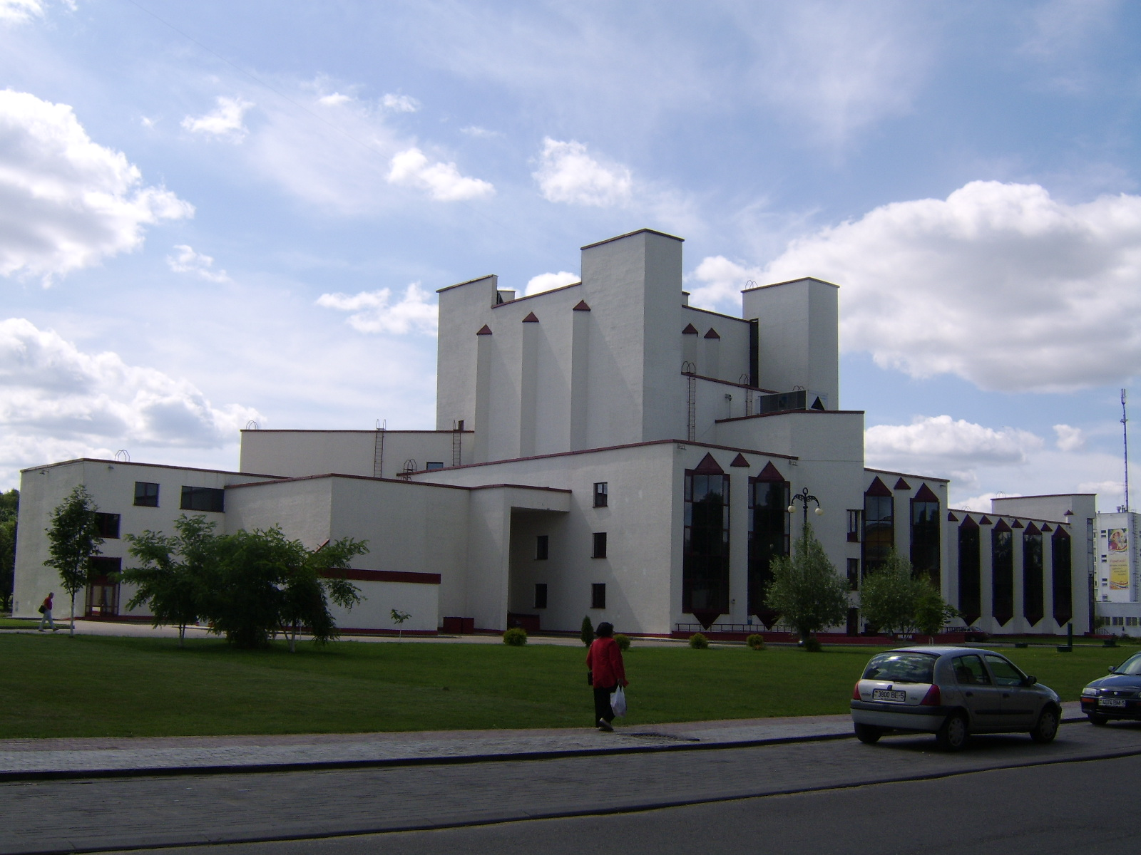 Palace of Culture in Maladzechna, Belarus